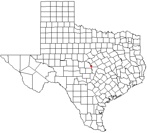 Bend, Texas location map; created with the GIMP. Made by User:Acntx.